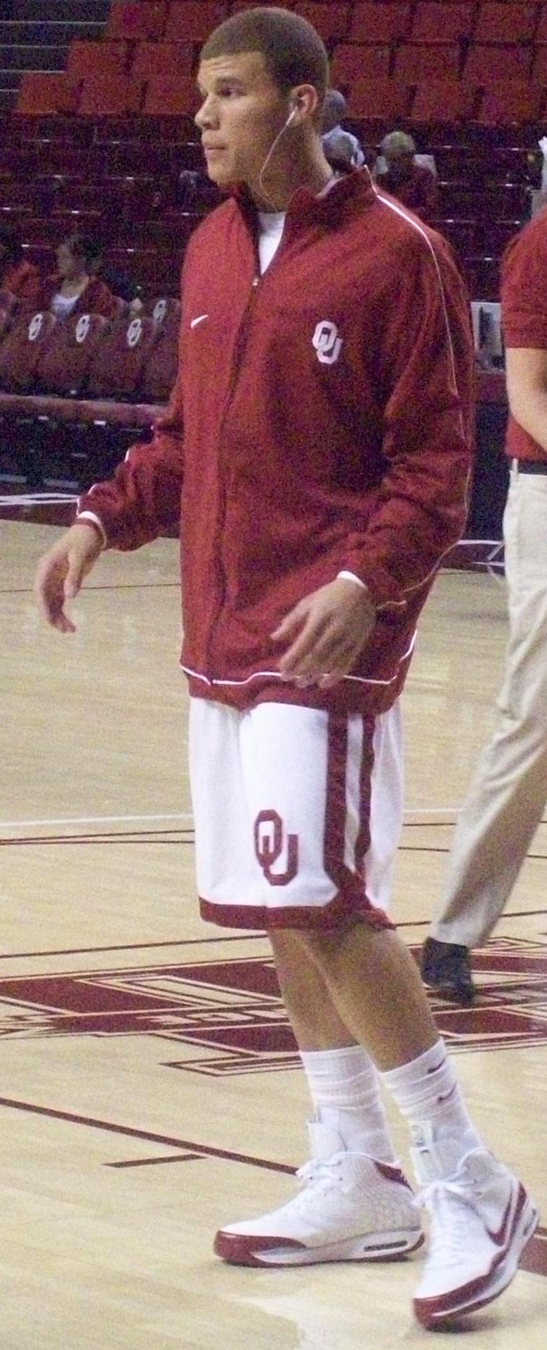 A full body shot of the Oklahoma Sooners' forward Blake Griffin (#23). Taken during warm-up before the Sooners' game against Davidson.